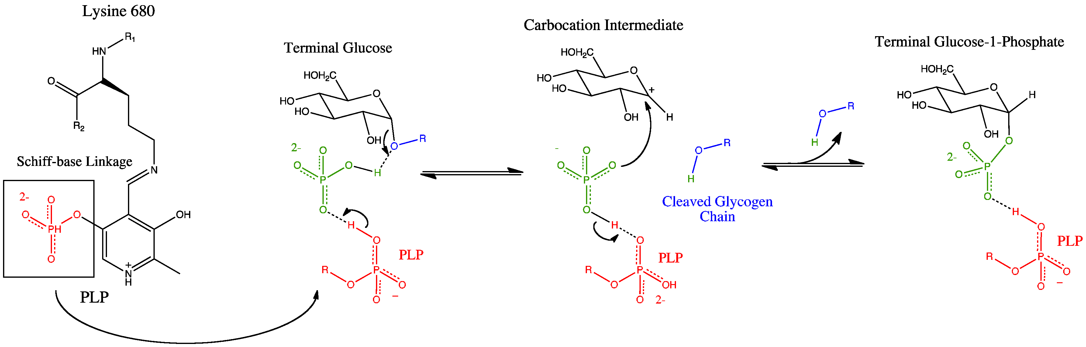 Arrow Pushing Mechanism for Glycogen Phosphorylase Using PLP